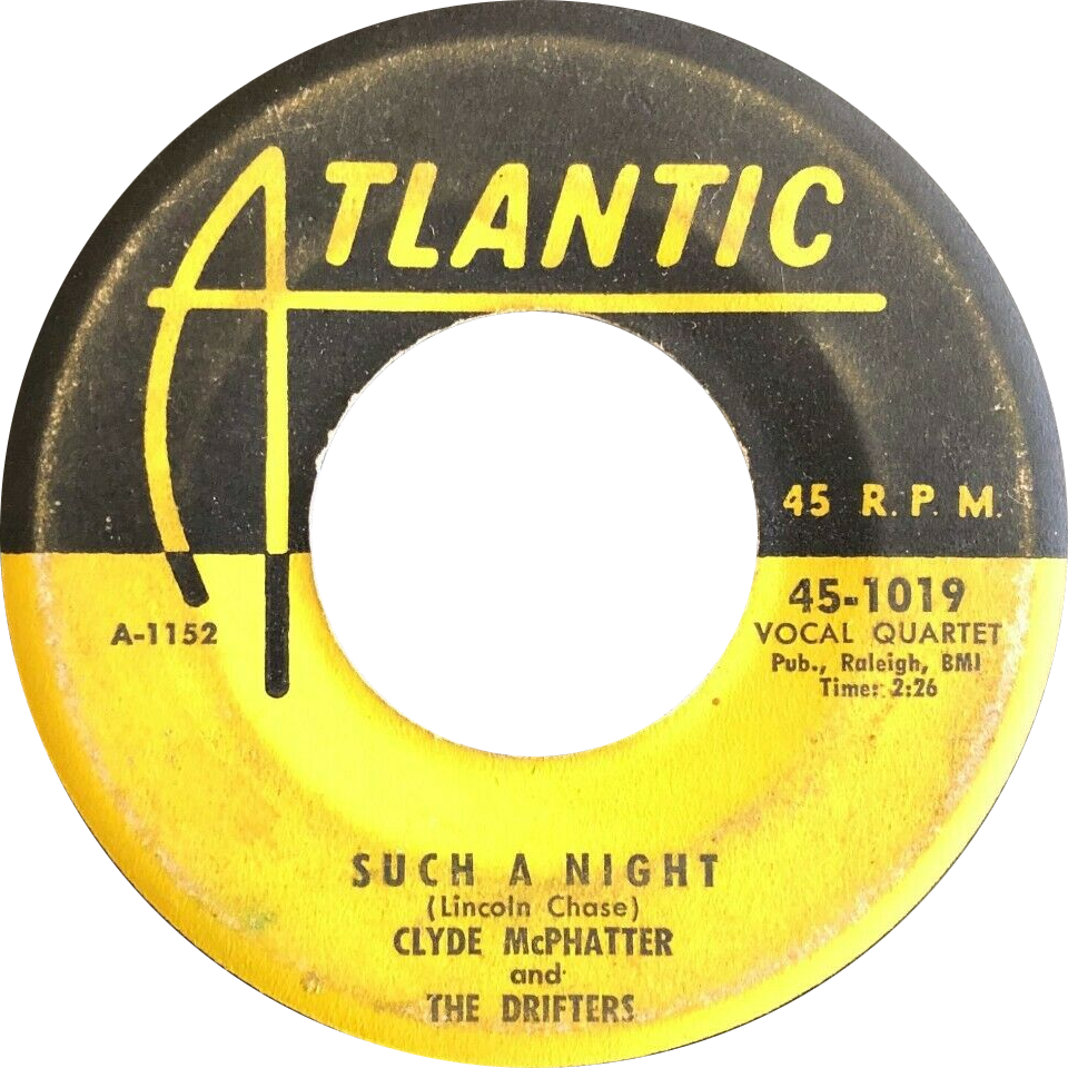 Side-B label of the US 7-inch (45 RPM) vinyl single "Lucille" by Clyde McPhatter and The Drifters. "Such a Night" is the B-side track originally recorded by Clyde McPhatter and the Drifters, later sung by Johnnie Ray in 1954 and then Elvis Presley ten years later (i.e. 1964)